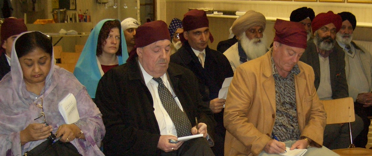 Sikhism Related Photo of Visitors to a Gurdwara wearing head covering.